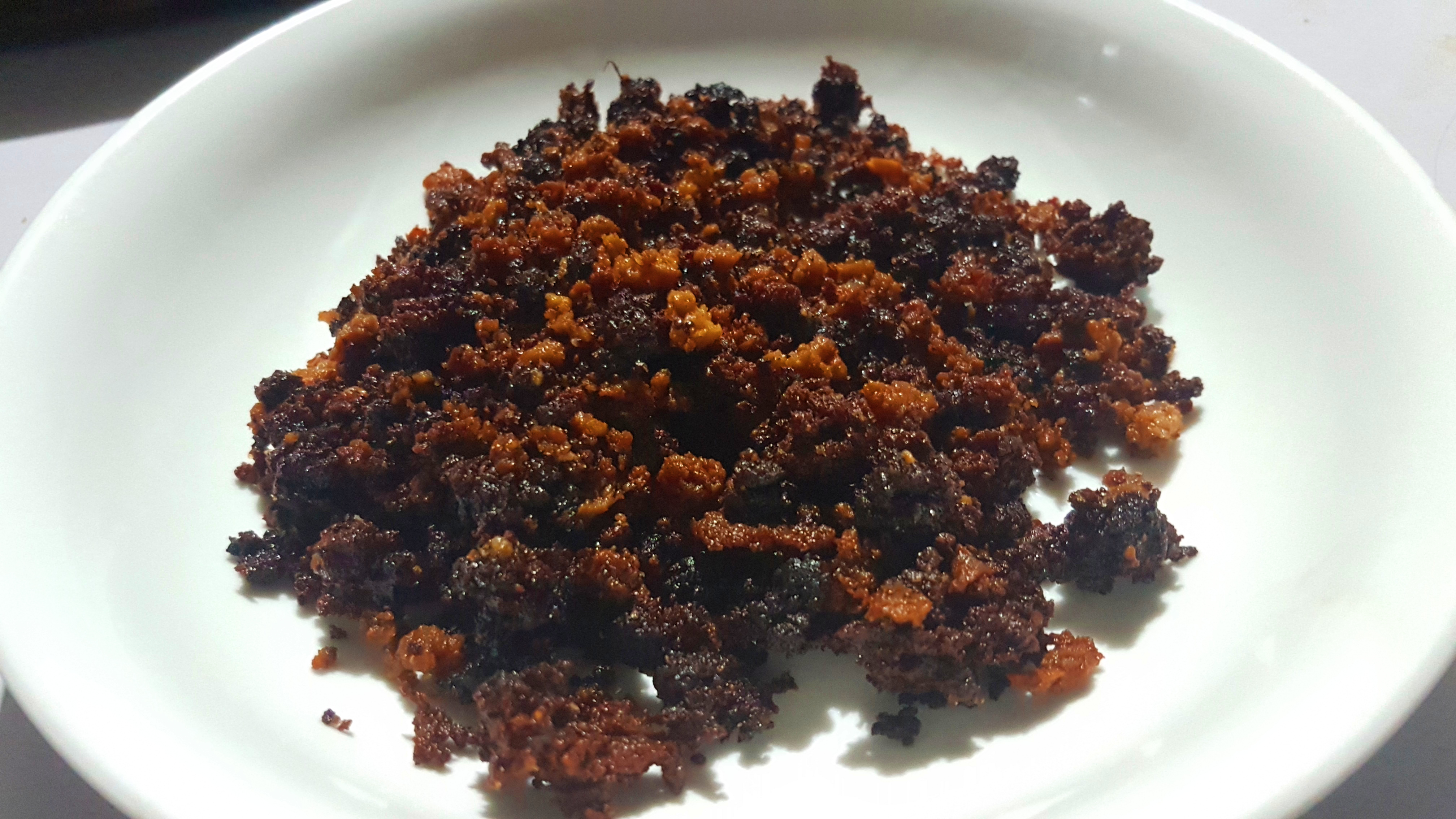 Lunok or Latik (coconut curds) 2 - Philippines